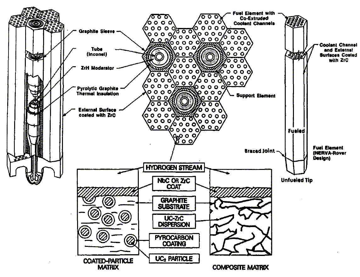 Two of the fuel forms tested during the Rover/NERVA programs. The majority of experimental testing was performed using “graphite” fuel. It consisted of pyrocarbon coated uranium carbide (UC2) fuel particles which were dispersed in a graphite substrate. This fuel was operated at hydrogen exhaust temperatures as high as 2550 K. The second fuel form was a “composite” fuel which consisted of a UC-ZrC dispersion in the graphite substrate. Although the composite fuel received only limited nuclear testing in the Nuclear Furnace (NF-l), it also underwent extensive electrical furnace testing (~10 hours at 2750 K with 64 temperature cycles) which demonstrated the potential to provide hydrogen exhaust temperatures and equivalent Isp values of ~2700 K and 900 s, respectively.